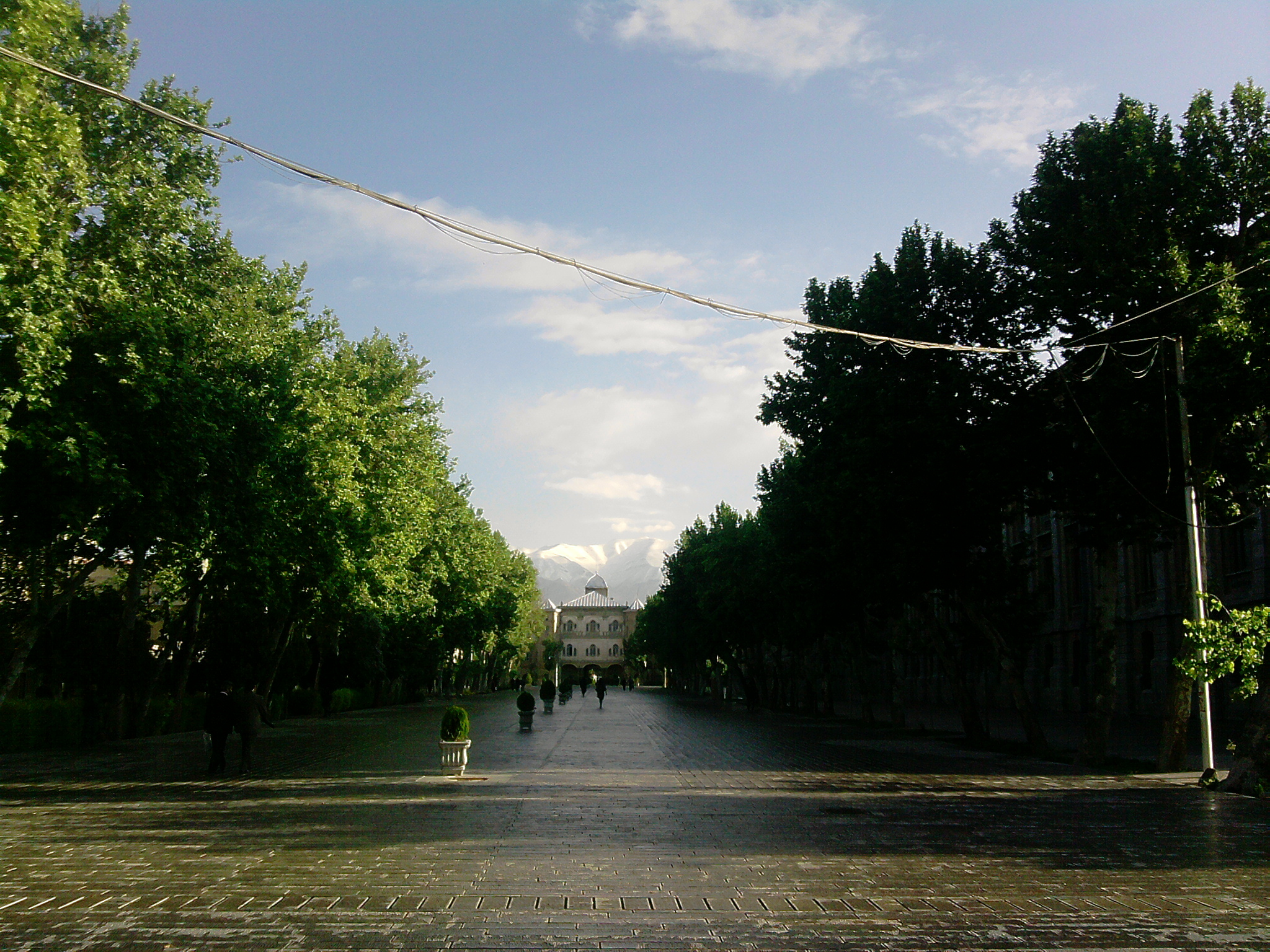 ministry of MFA Iran south north UN street